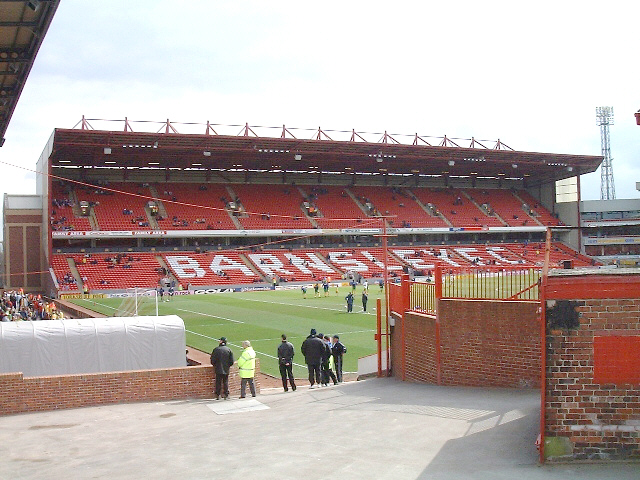 East Stand, Oakwell